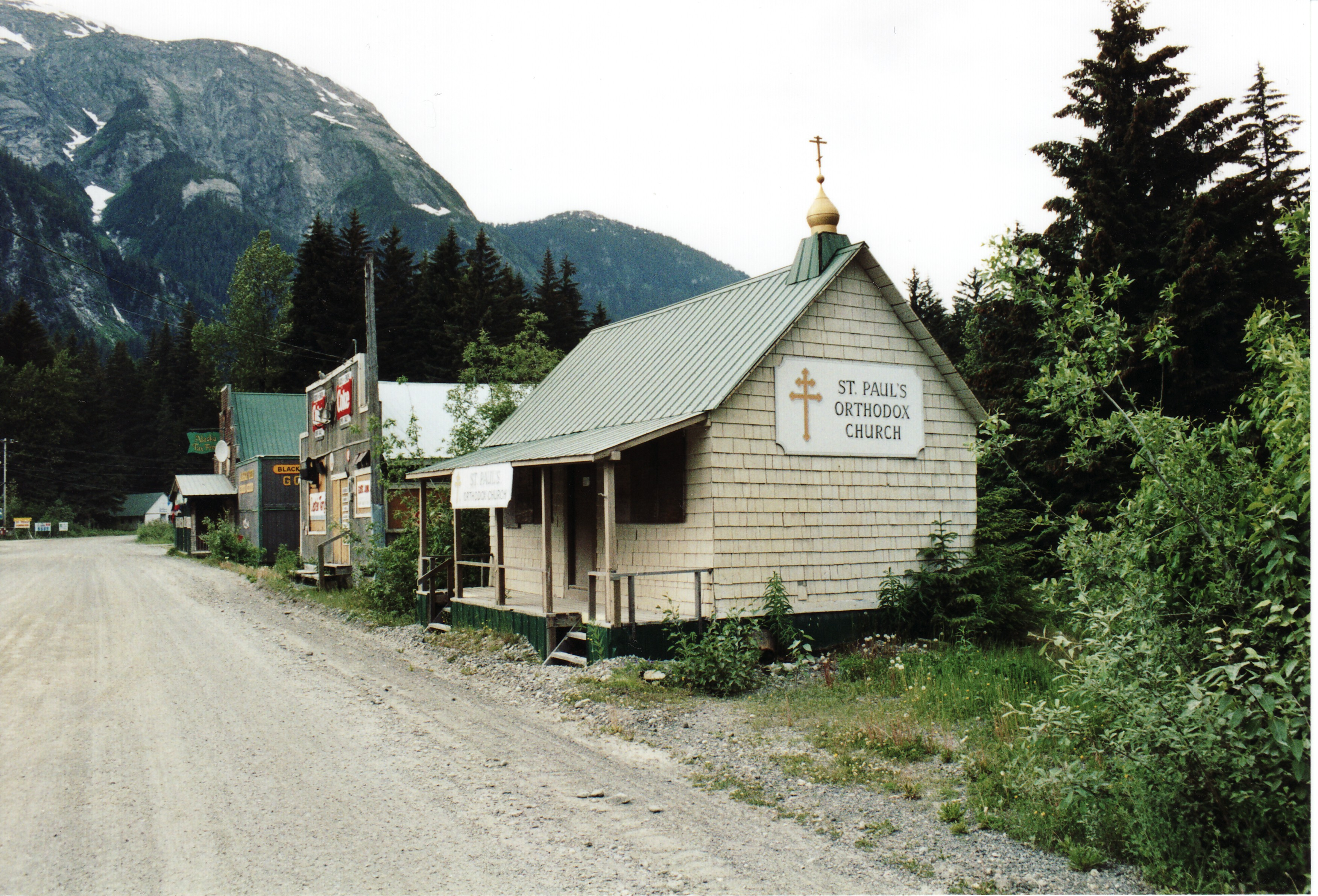 downtown Hyder, Alaska with St. Paul's Ukrainian Orthodox Church (202 International Street) in foreground